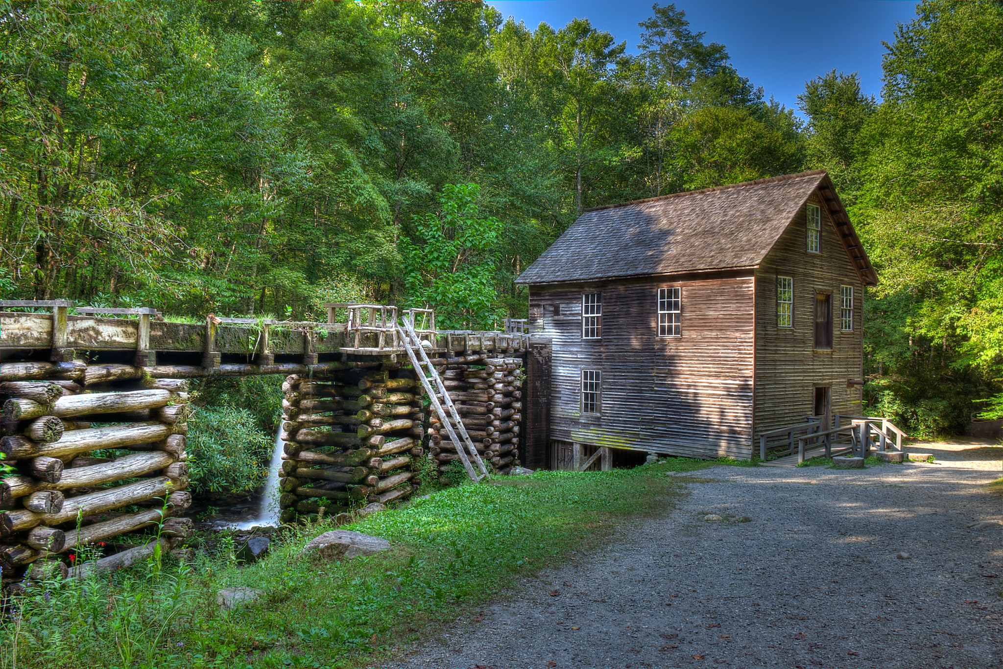 Mingus Mill and flume